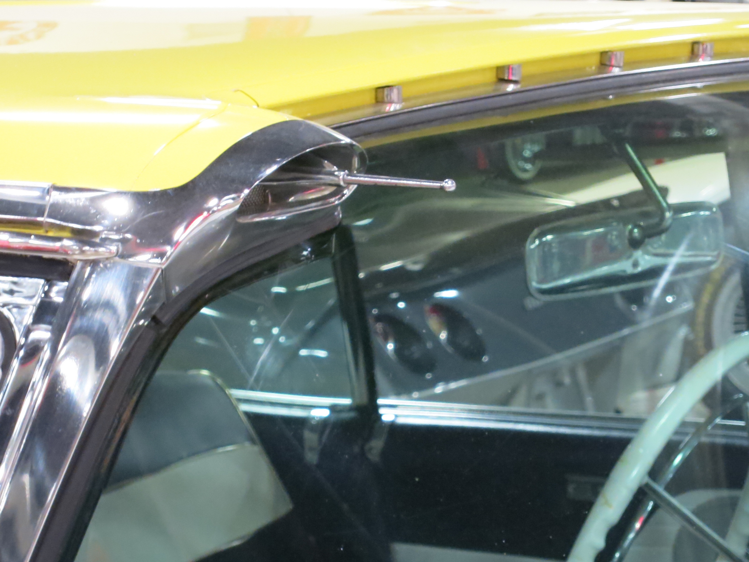 1957 Mercury Turnpike Cruiser Tupelo Automobile Museum Tupelo, Mississippi